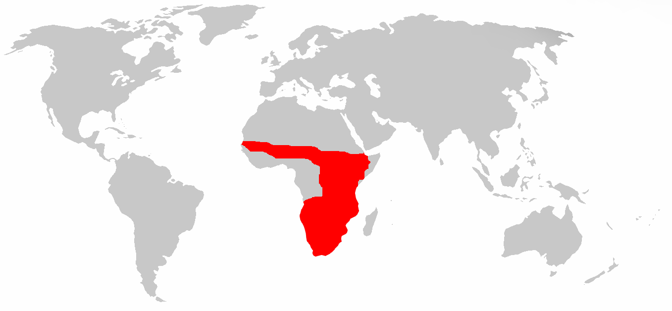 Range of secretarybird (Sagittarius serpentarius) - adapted from IUCN red list on species